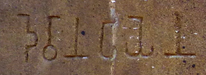 Devanampiyena in the Lumbini Edict of Ashoka